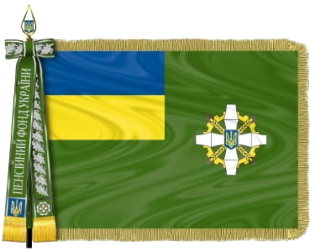 Flag of the Pension Fund of Ukraine